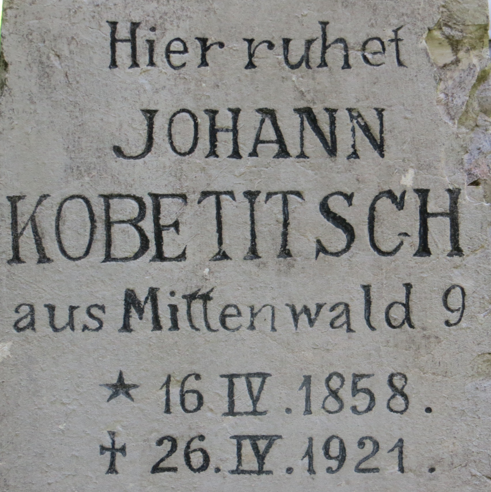 Gravestone at Prophet Elijah Church in Planina, Municipality of Semič, Slovenia with the German place name Mittenwald (Slovenian: Sredgora)